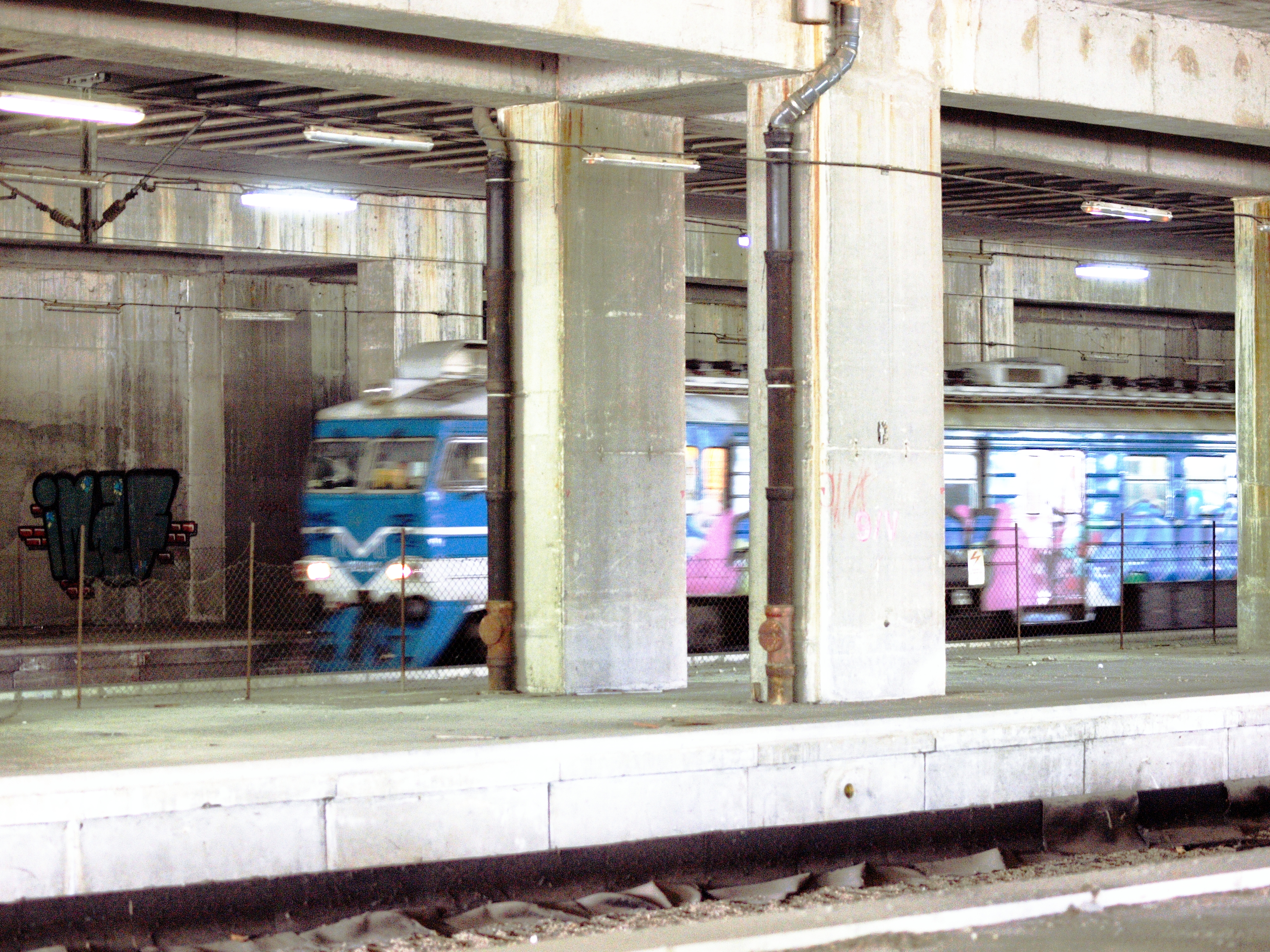 Blue train rushing through Prokop